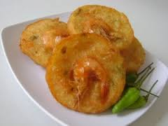 Jawa: Ote - ote